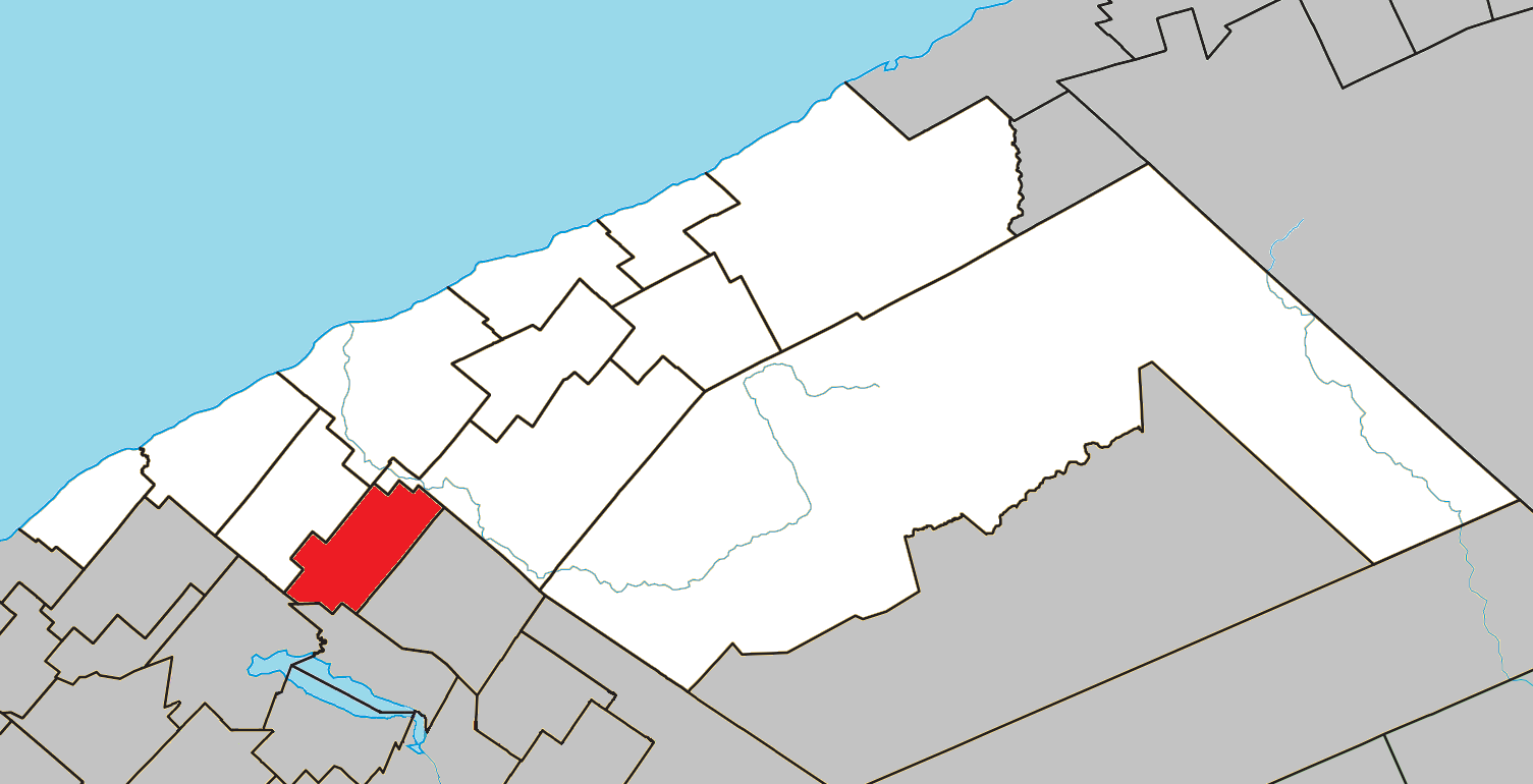 Location of Sainte-Paule, Quebec within Matane Regional County Municipality.